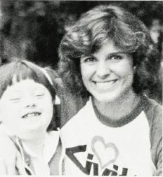 Susan Saint James participating in a Civitan International public service announcement for Special Olympics.